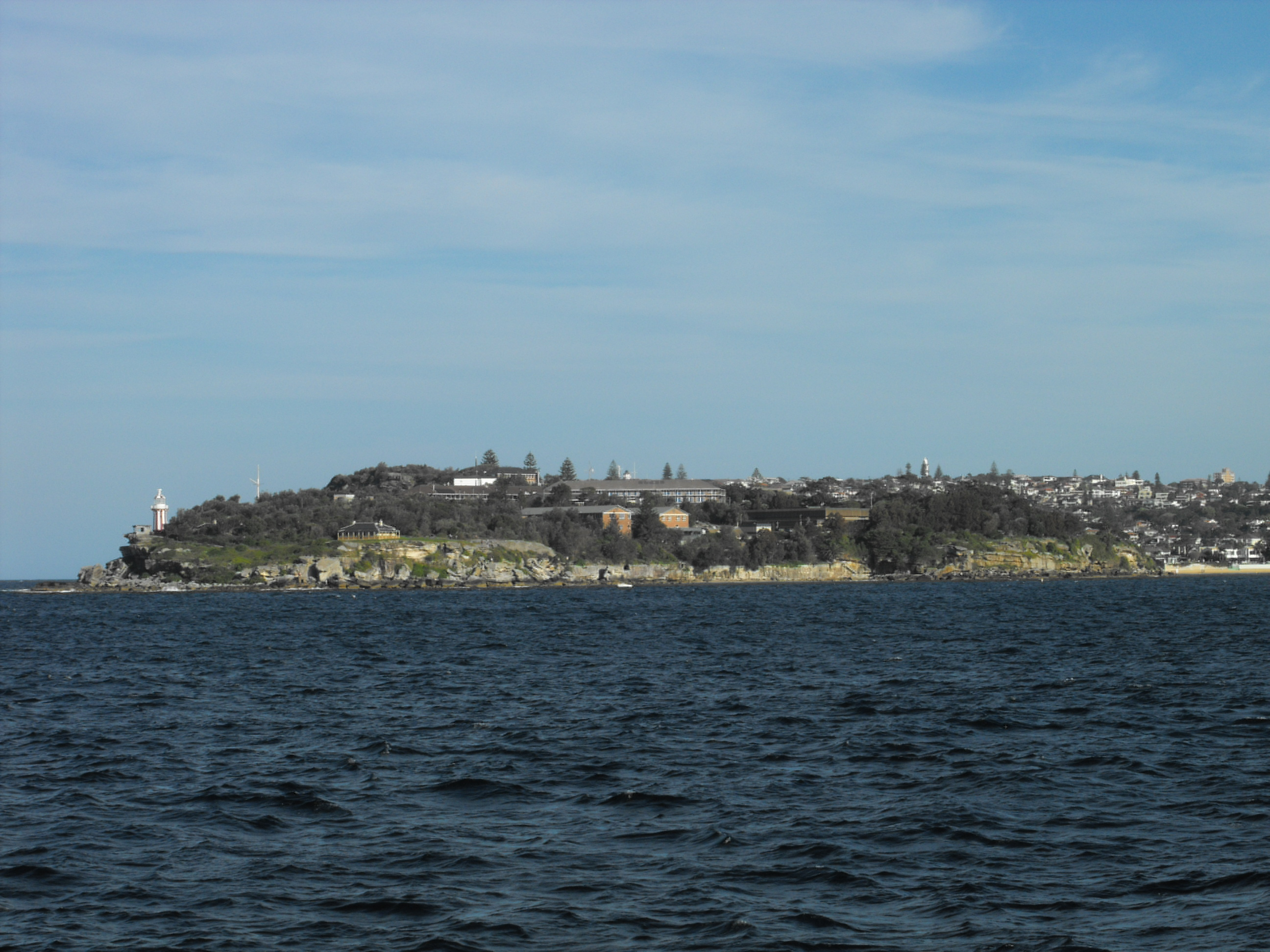 The naval training base HMAS Watson, located on the South Head of Sydney Harbour. The photo has been taken from inside the harbour.